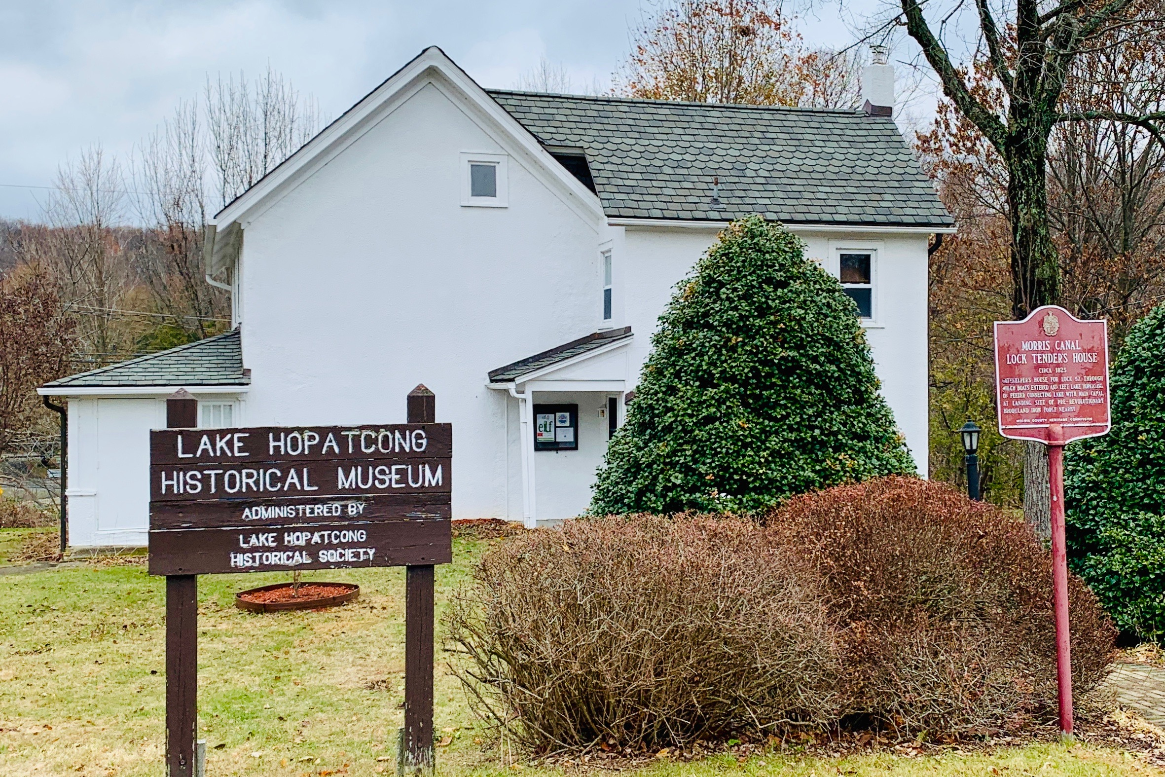 View of the Lake Hopatcong Historical Museum at Hopatcong State Park in Landing, New Jersey. Originally was the Lock Tender's House on the feeder canal for the Morris Canal. Built circa 1825 date QS:P,+1825-00-00T00:00:00Z/9,P1480,Q5727902.